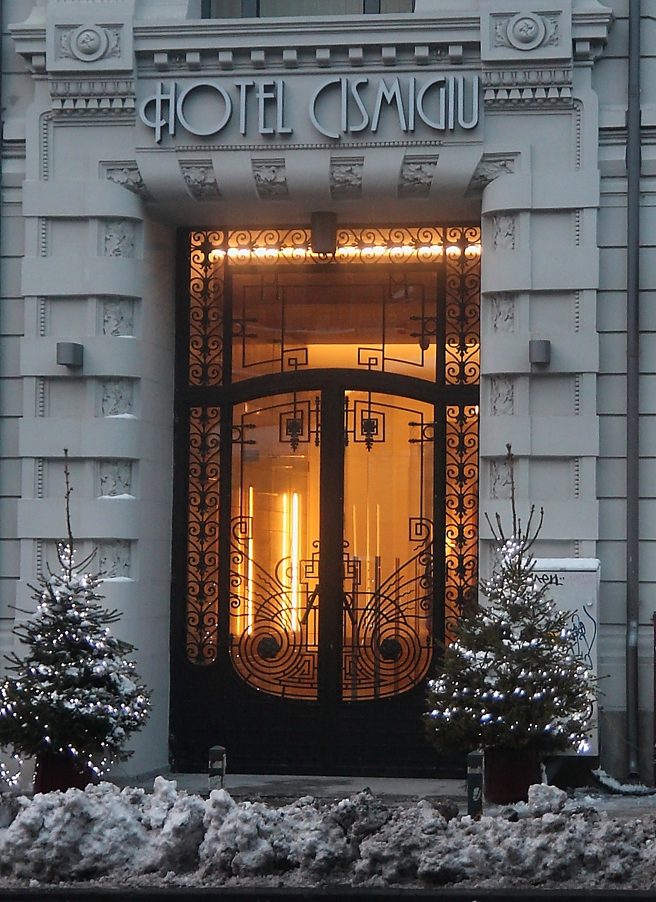 Hotel Cismigiu in BucharestRomână: Usa de intrare restaurata. Hotel cismigiu Romania